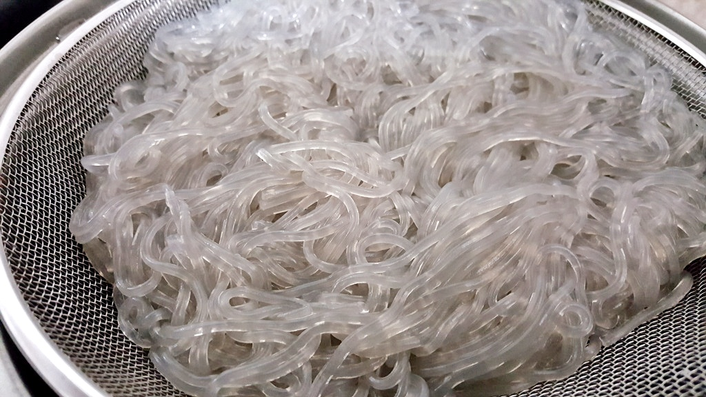 Cooked dangmyeon (cellophane noodles)